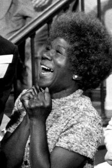 Beah Richards from the television program The Bill Cosby Show.